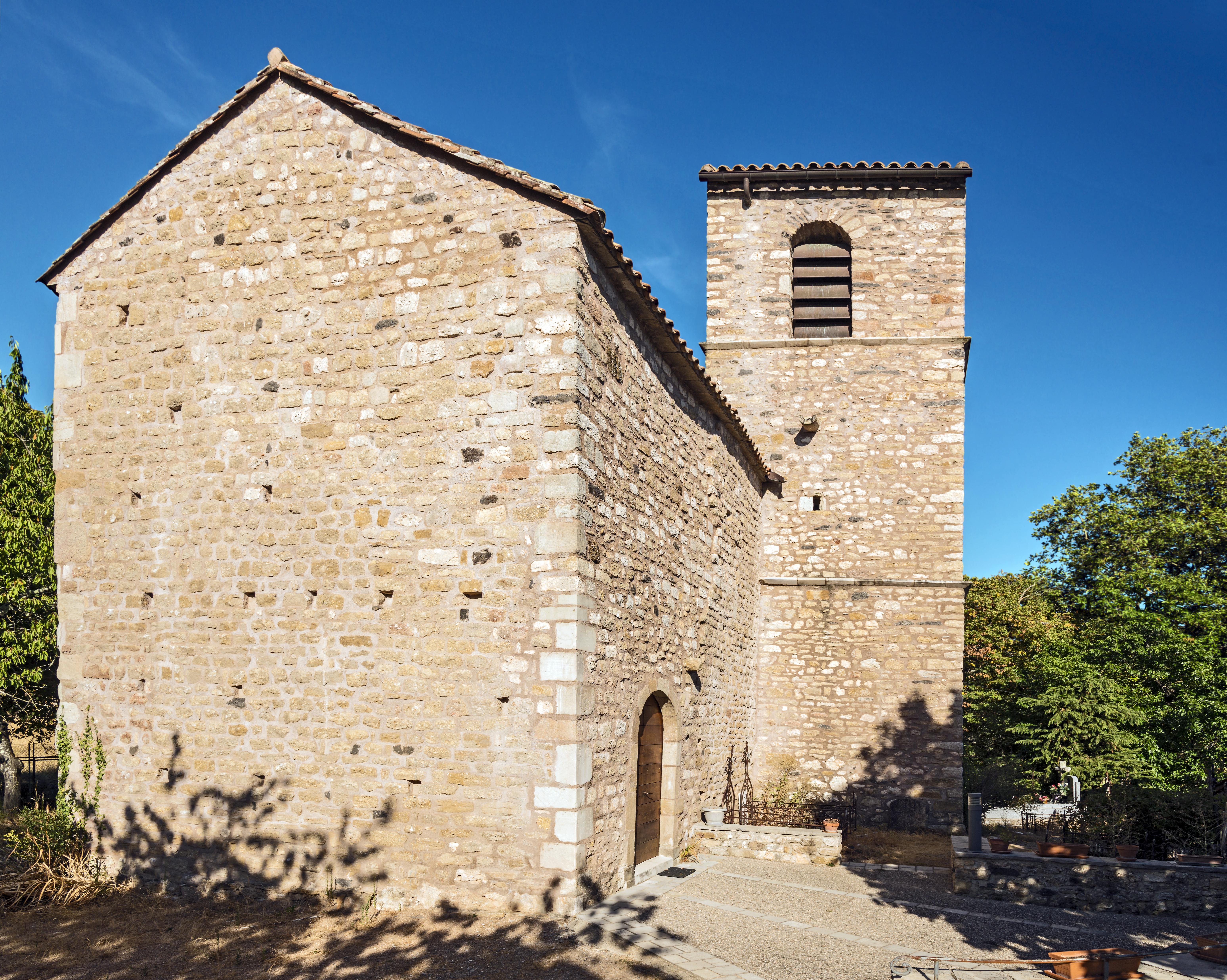 Chapel St-Peter of Levas - Carlencas-et-Levas, Herault France. Romanesque chapel of the eleventh century.